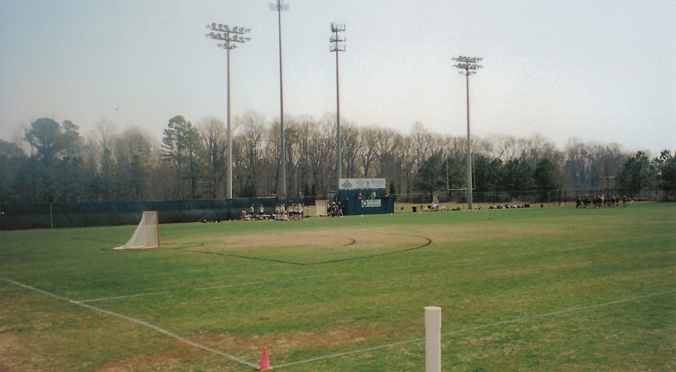 I took this myself in March of 2007.